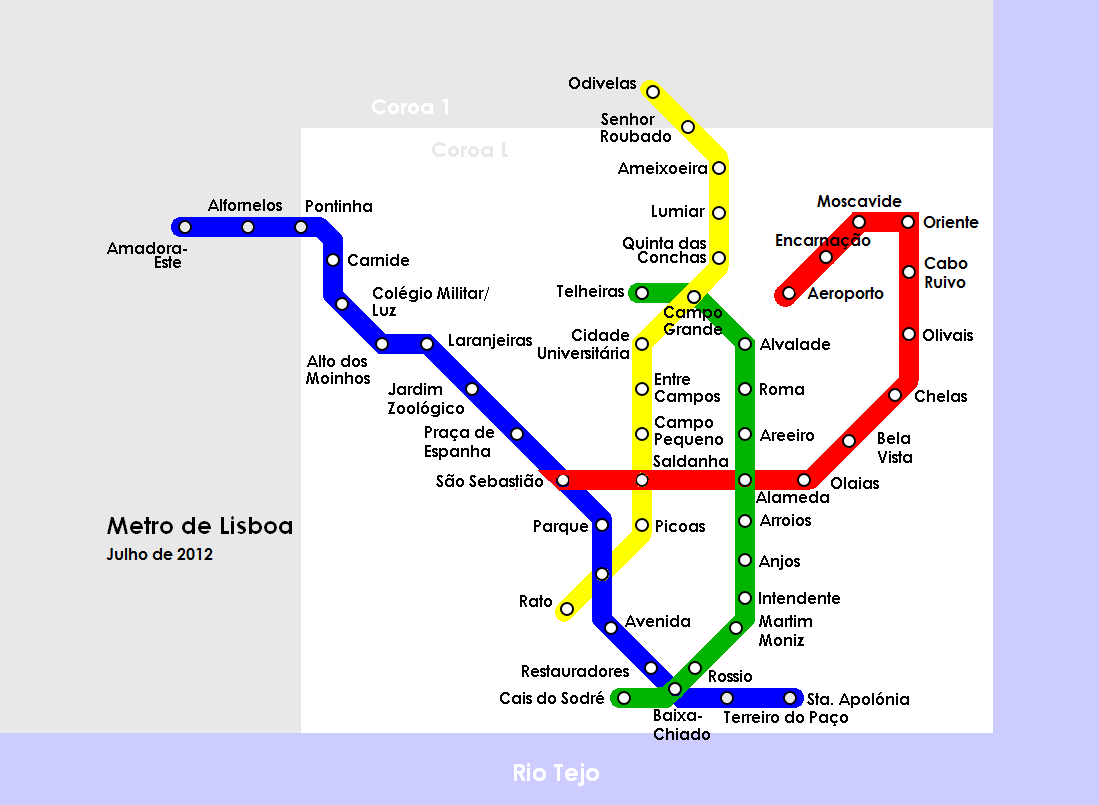 Lisbon Underground on 17th July 2012